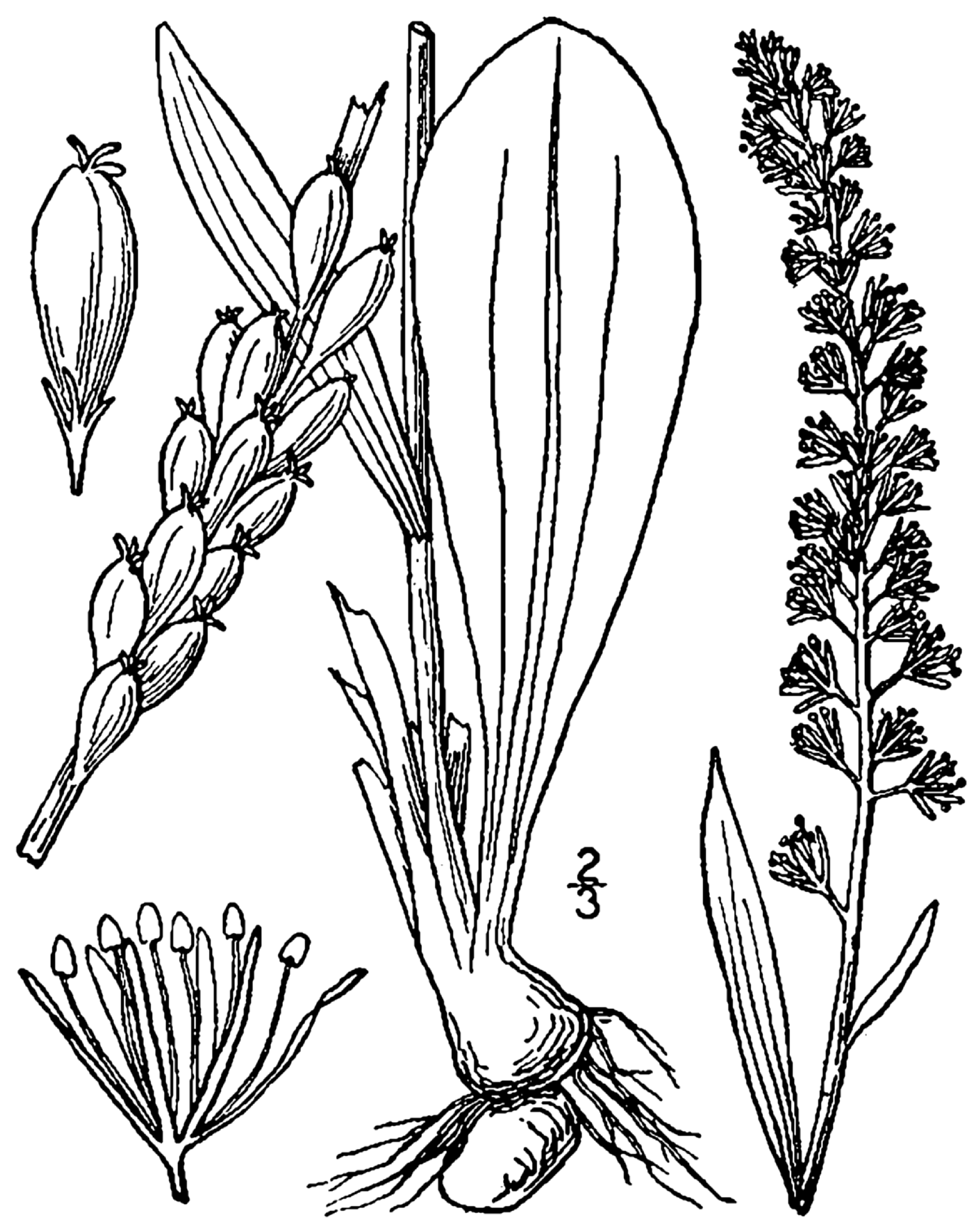 Chamaelirium luteum (L.) A. Gray - fairywand